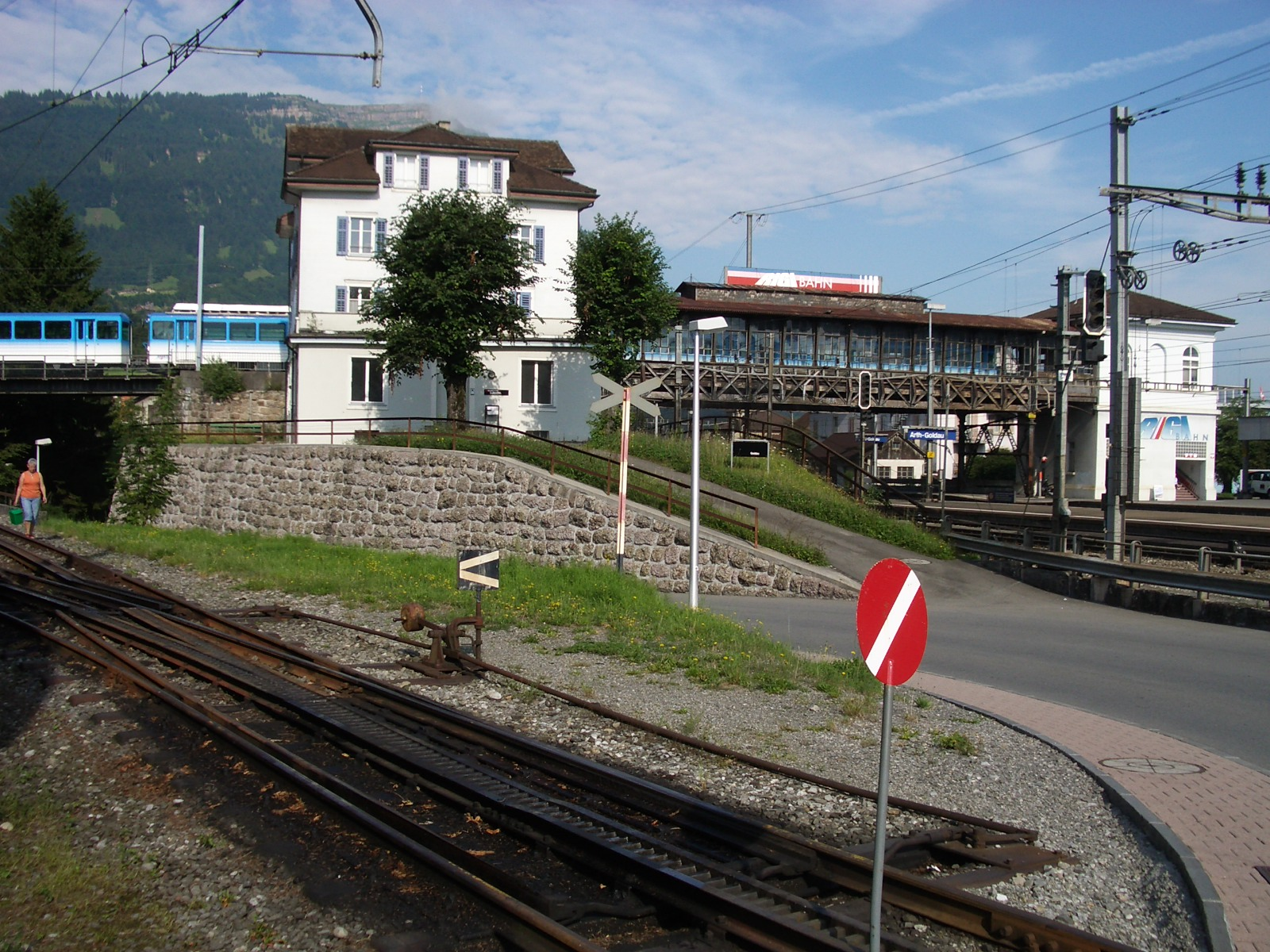 Goldau SZ, Switzerland